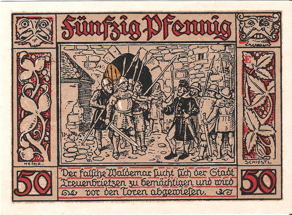 local emergency money, Treuenbrietzen 1921